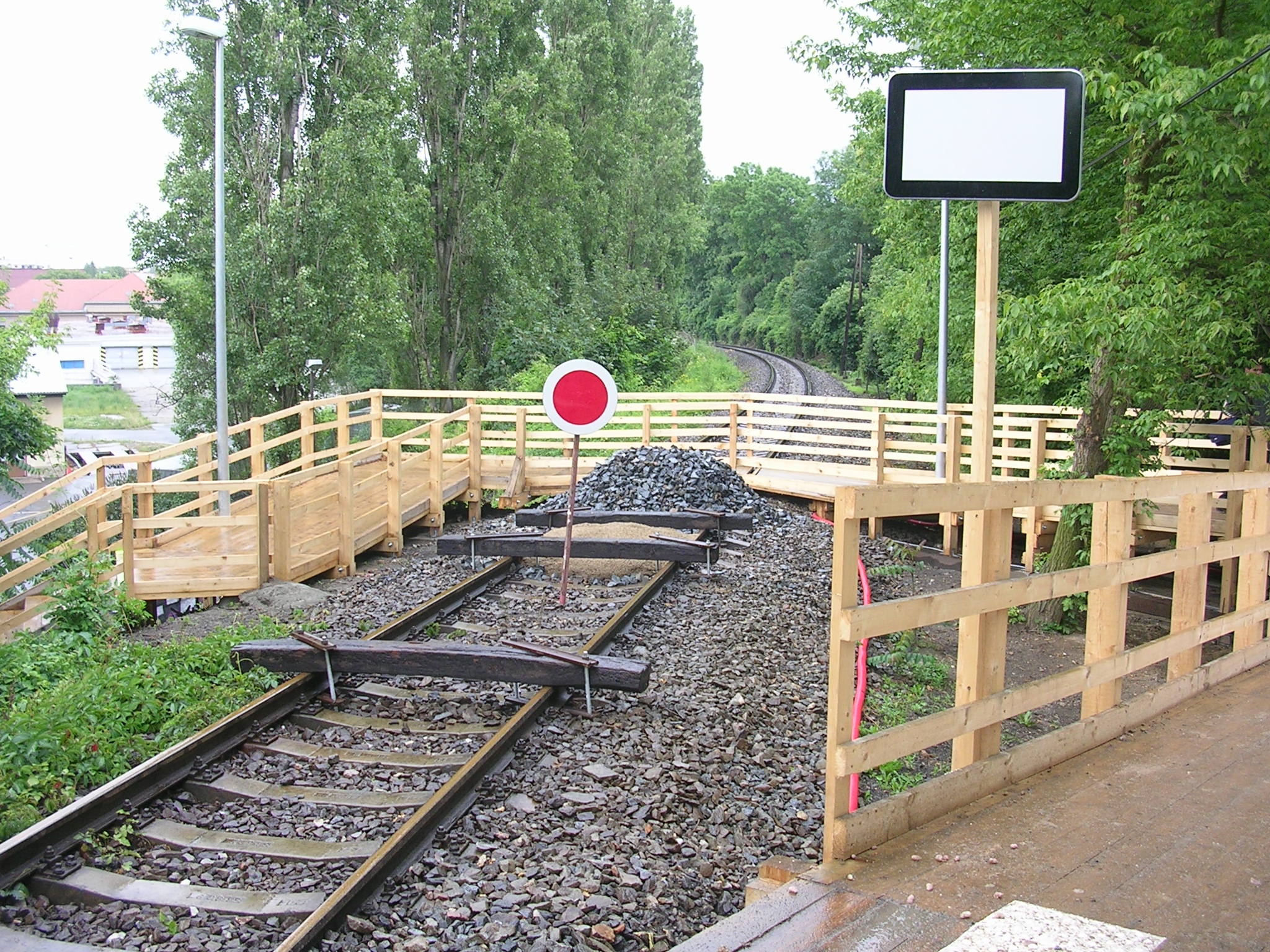 Dejvice, Prague, the Czech Republic. The temporary train station "Praha-Gymnasijní".